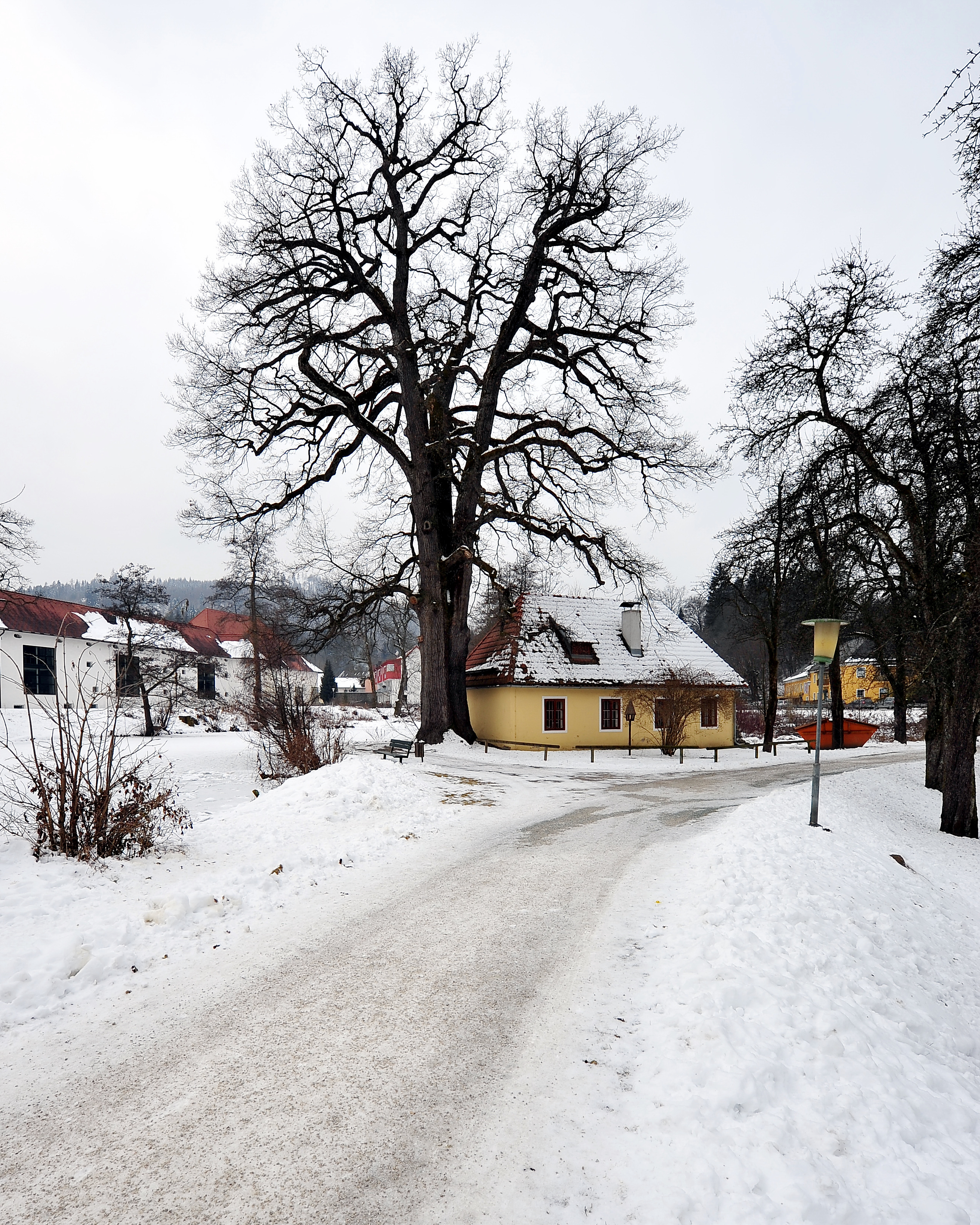 “Fischerkeusche” on the Koschatpromenade with the winterly quercus robur-tree near the monastery of Viktring in the 13th district "Viktring" of the Carinthian capital Klagenfurt on the Lake Woerth, Carinthia, Austria